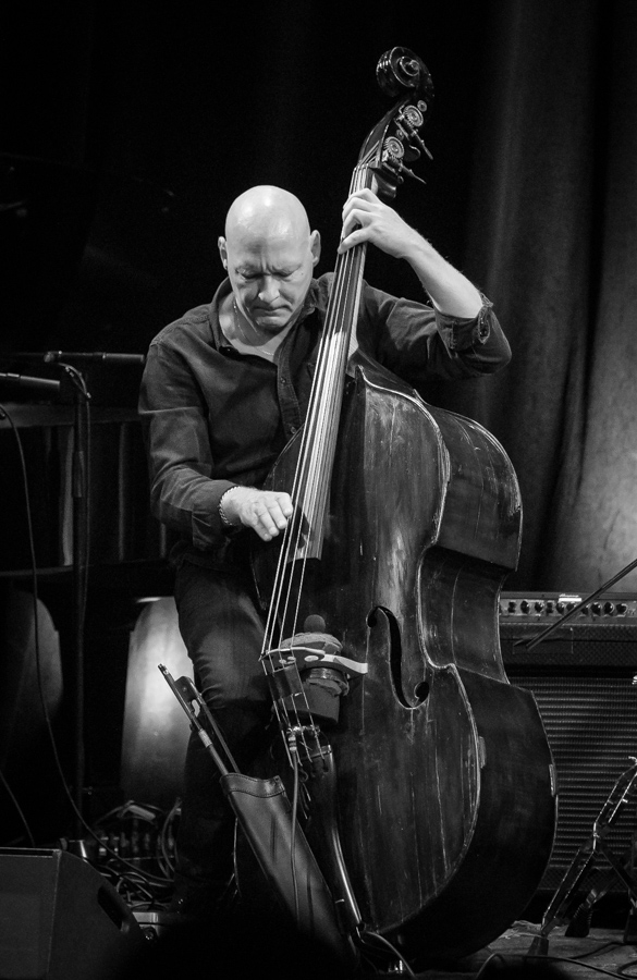 Dan Berglund in concert with Tonbruket at Victoria Teater. The concert was part of Oslo Jazzfestival and took place on 15. August 2017 in Oslo. Lineup: Dan Berglund (double bass), Martin Hederos (keyboard), Andreas Werliin (drums) and Johan Lindström (guitar).